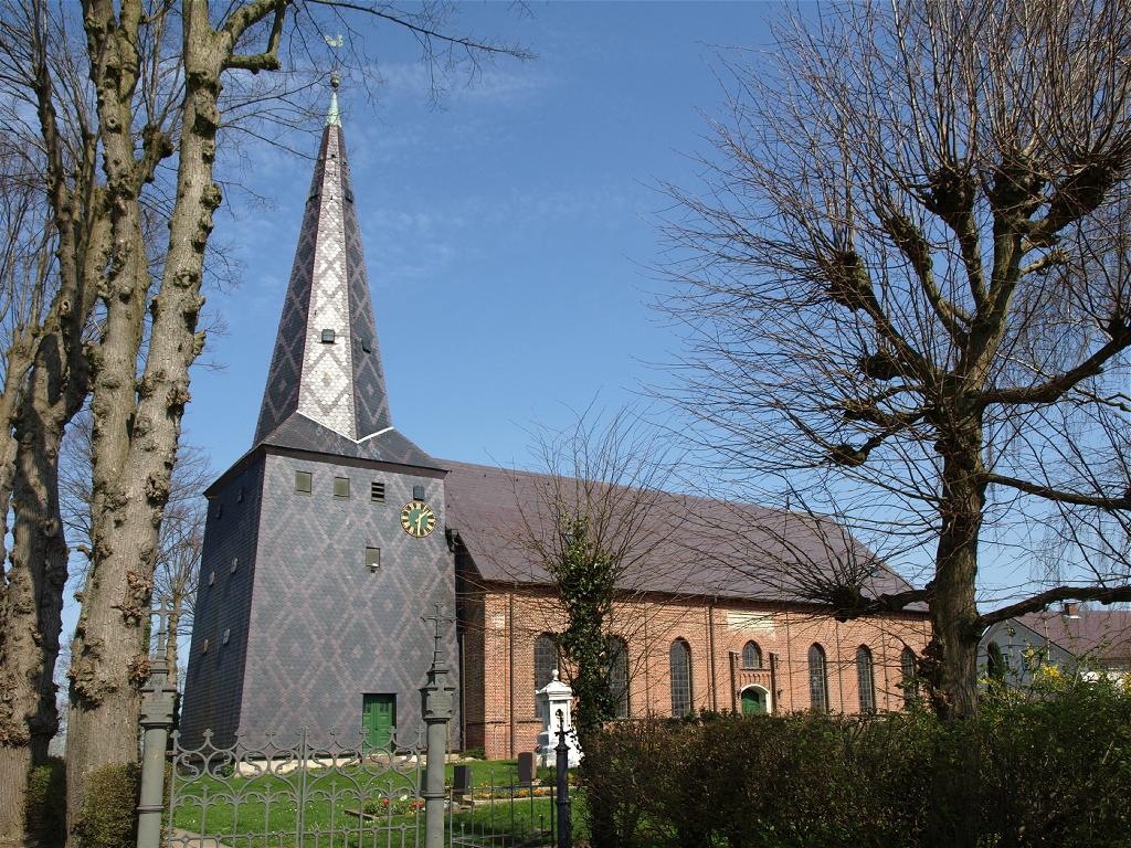 Kollmar (Schleswig-Holstein, Germany), church , photo 2009